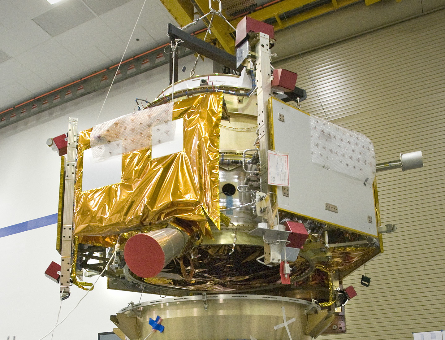 LCROSS - Shepherding Spacecraft